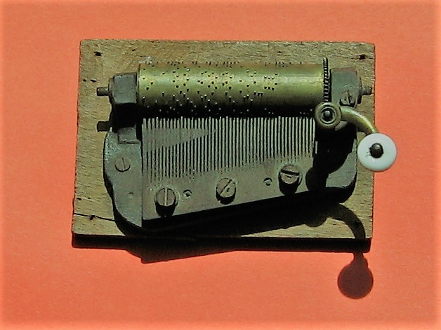 Music box with comb, cylinder and detachable handle. Without the handle the dimensions of the metal work are about 7,5 x 4,8 x 3,2 cm. Fifty lamellae, so fifty separate tones. From around 1900?